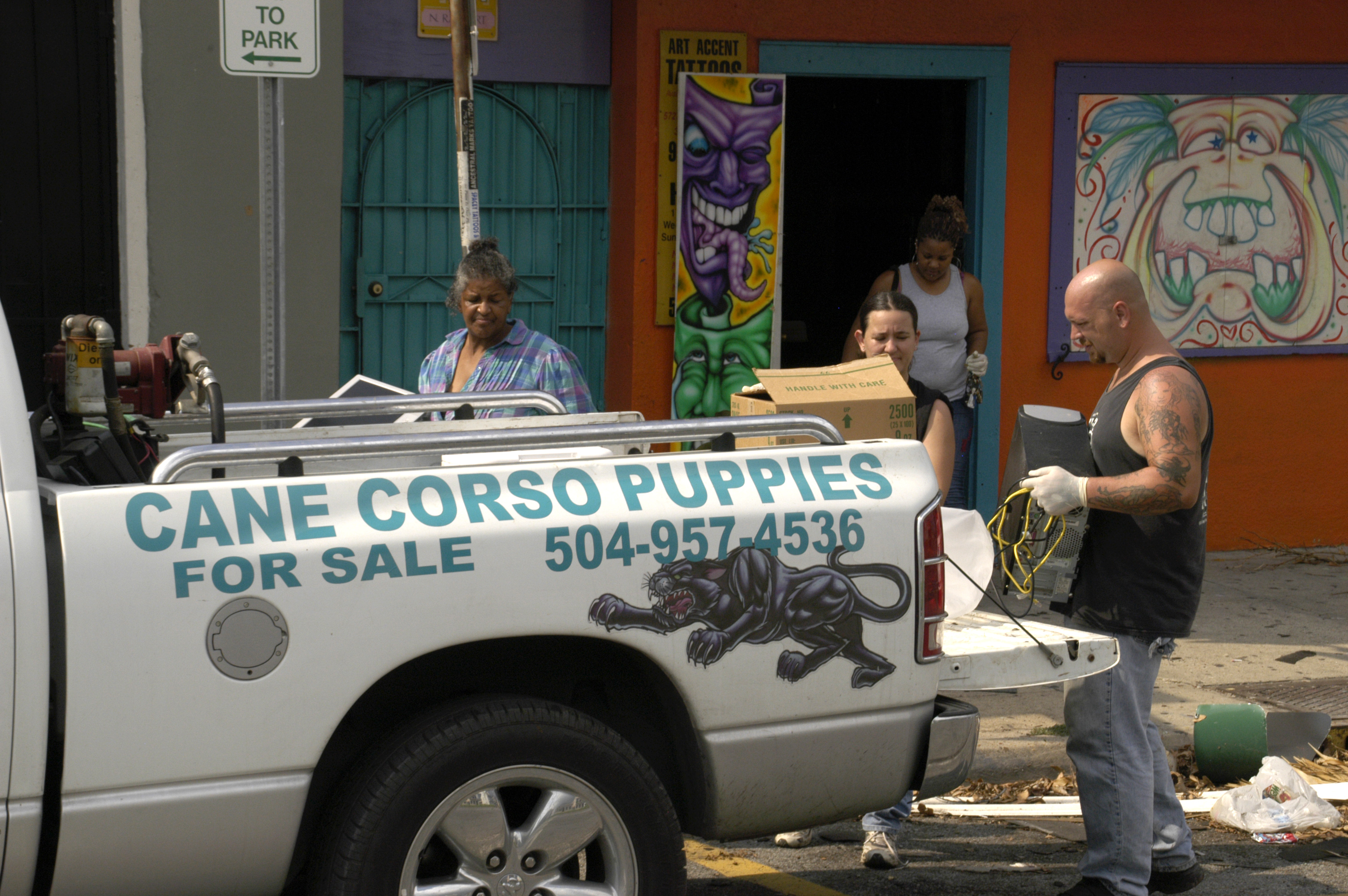 New Orleans, LA, 9-17-05 -- Jacci Gresham, Latanya Davis, Jolie and Richard Sevin start rebuilding their Tattoo shop. This is the first time since Hurricane Katrina that they have been able to come back. Many areas are still without power and utilities. Note: Original caption misidentified location as the "French Quarter"; shop is actually across Rampart Street, in the Treme neighborhood. MARVIN NAUMAN/FEMA photo